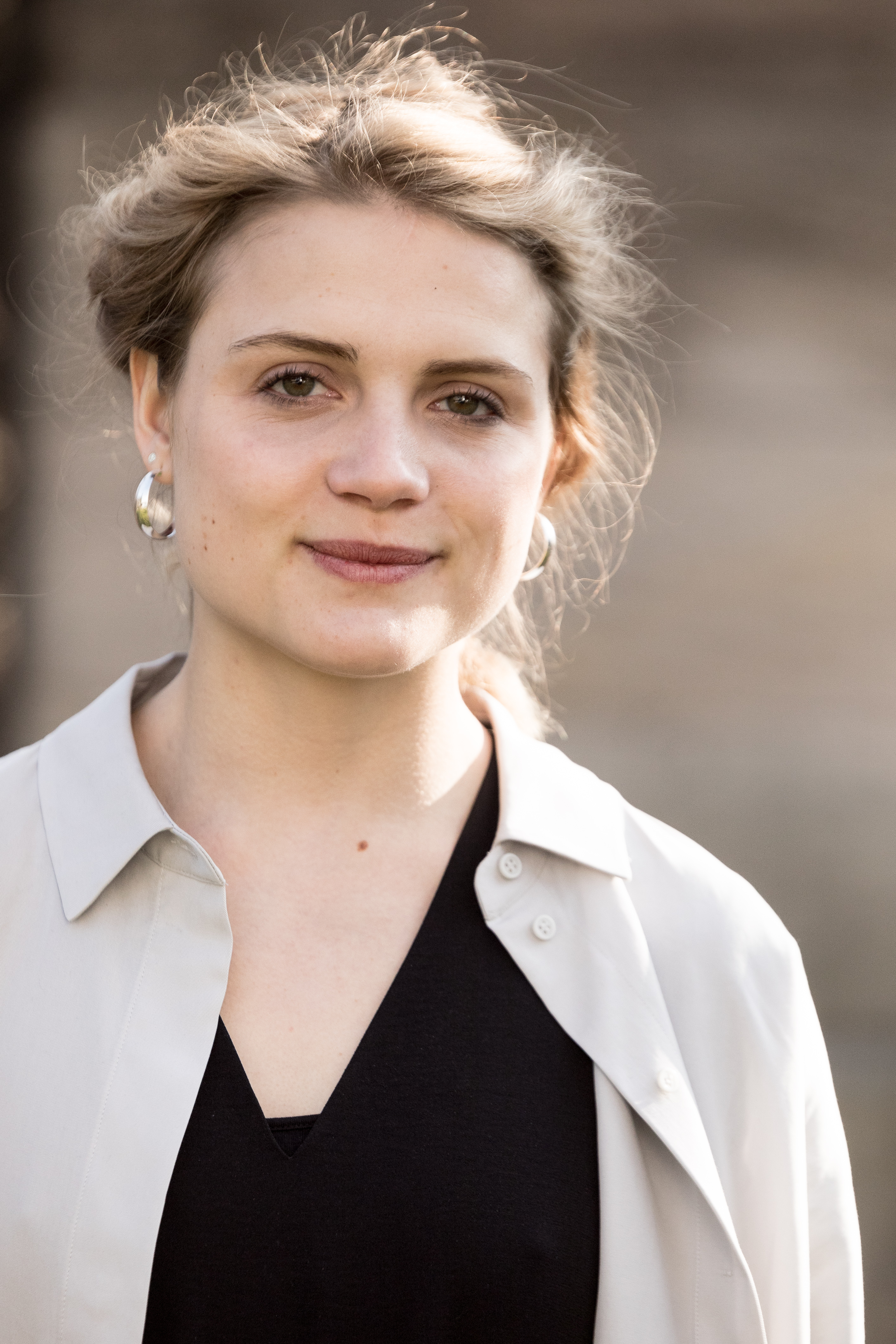 Mala Emde at the reception of the state government of Hesse, Berlinale 2018